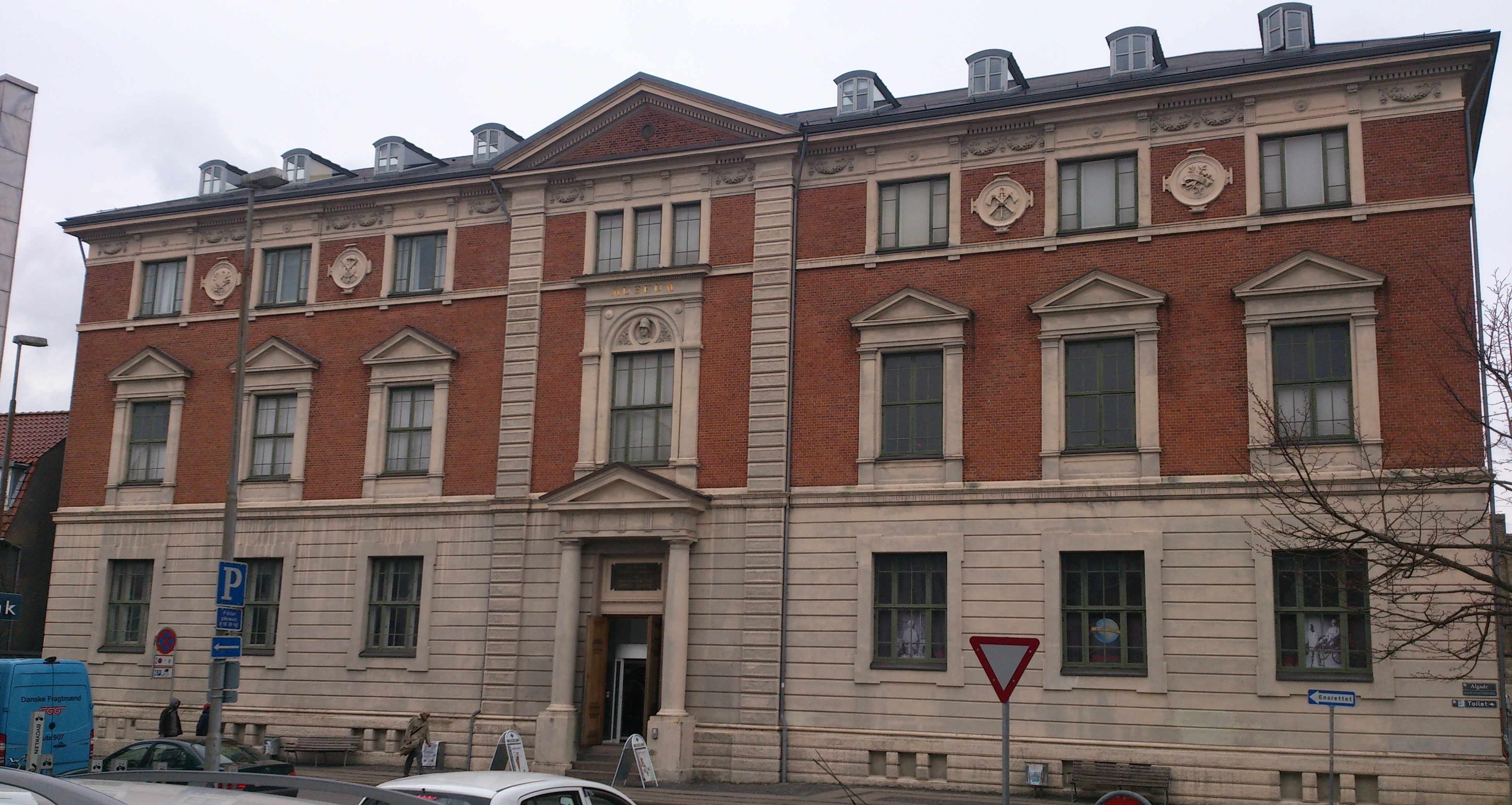 Aalborg Historiske Musuem, building from late 1800